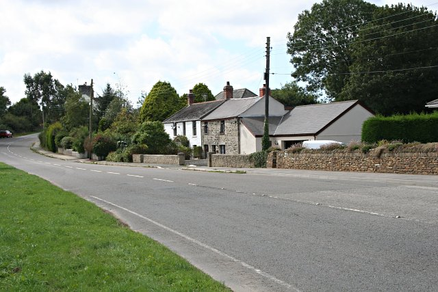 Chapel Town, Summercourt. Houses at the western end of Summercourt village, formerly near a Methodist Chapel.